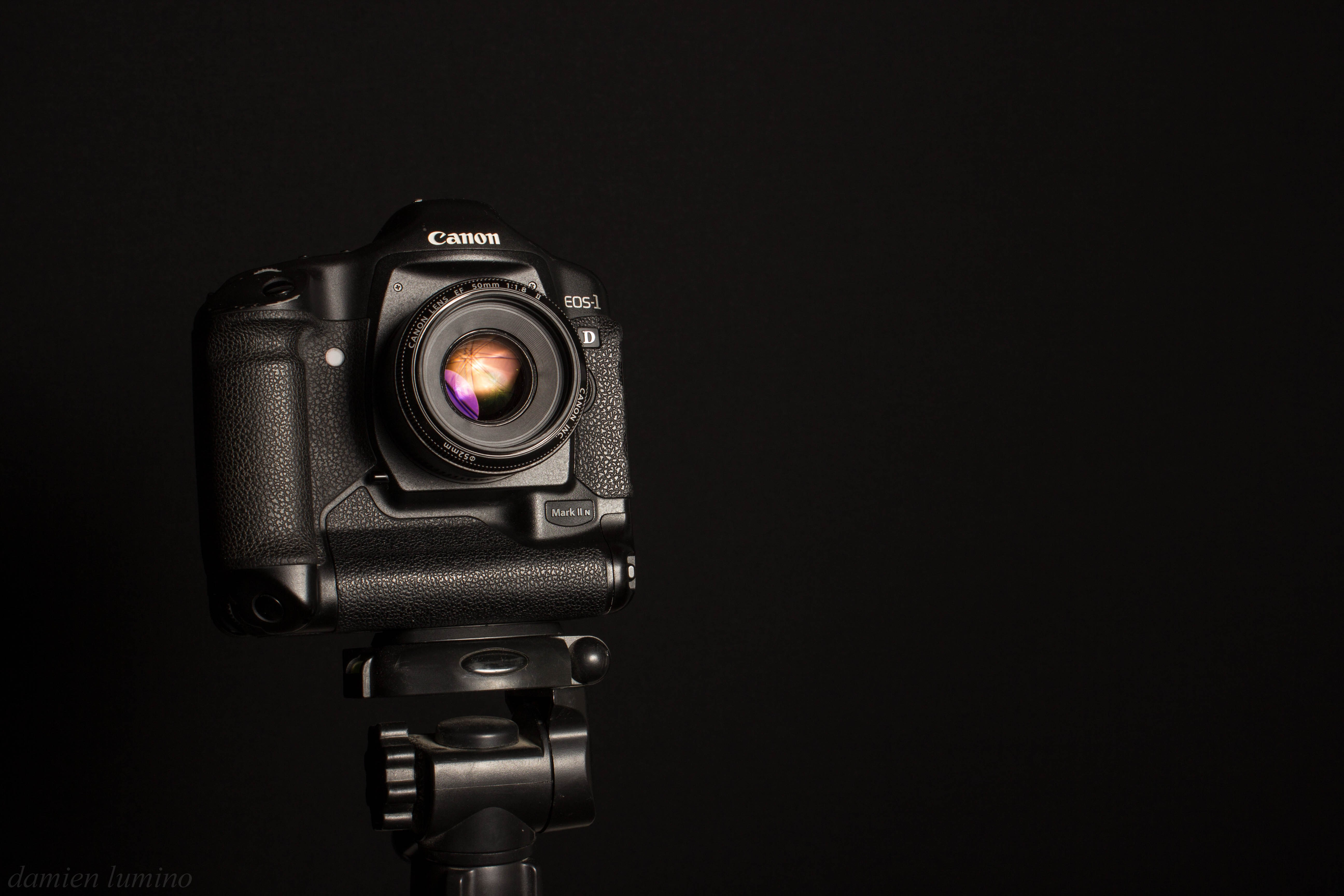 canon eos 1D mark II N.